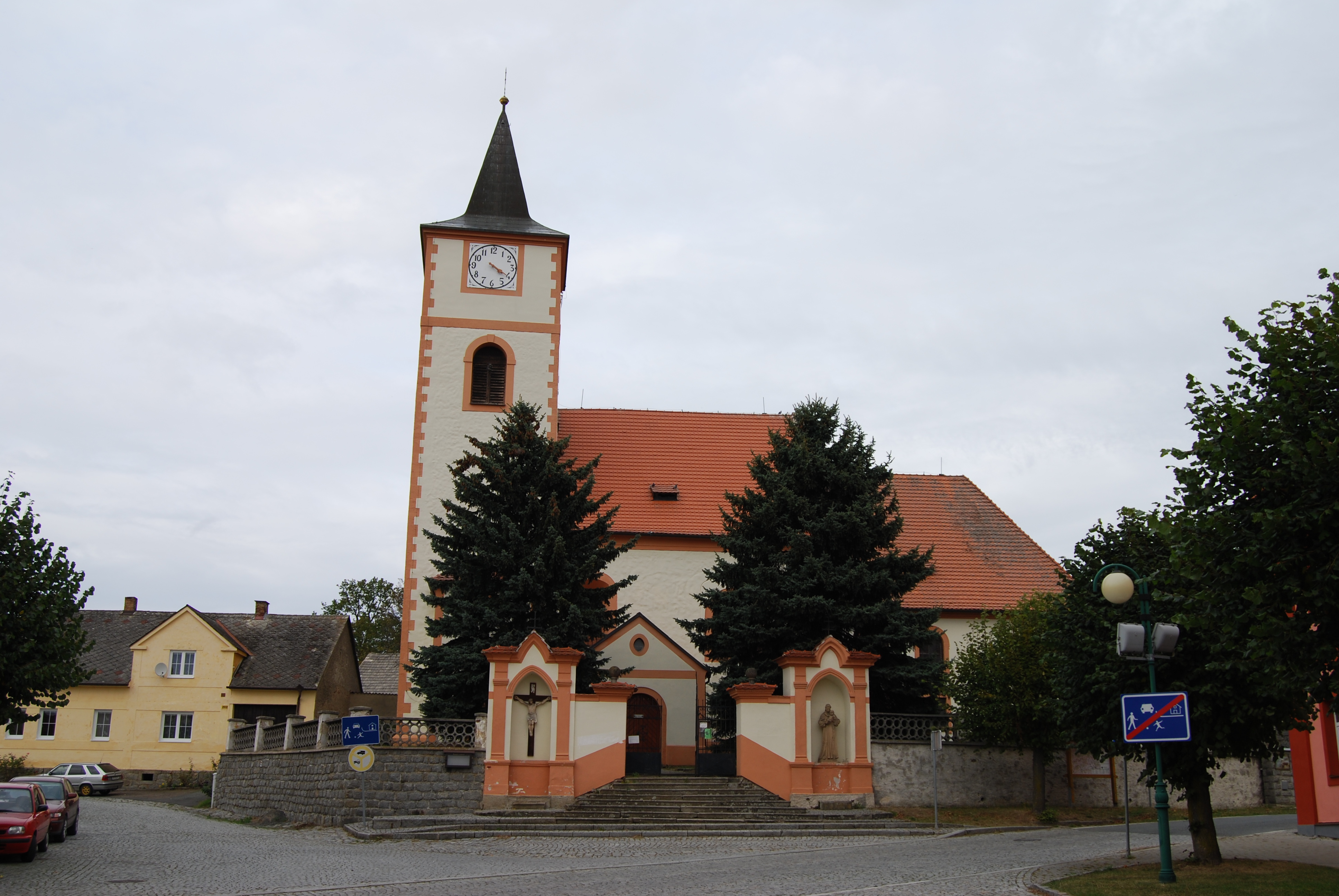 Kasejovice town in Plzeň-jih District. Czech Republic. Church of Saint Jakub